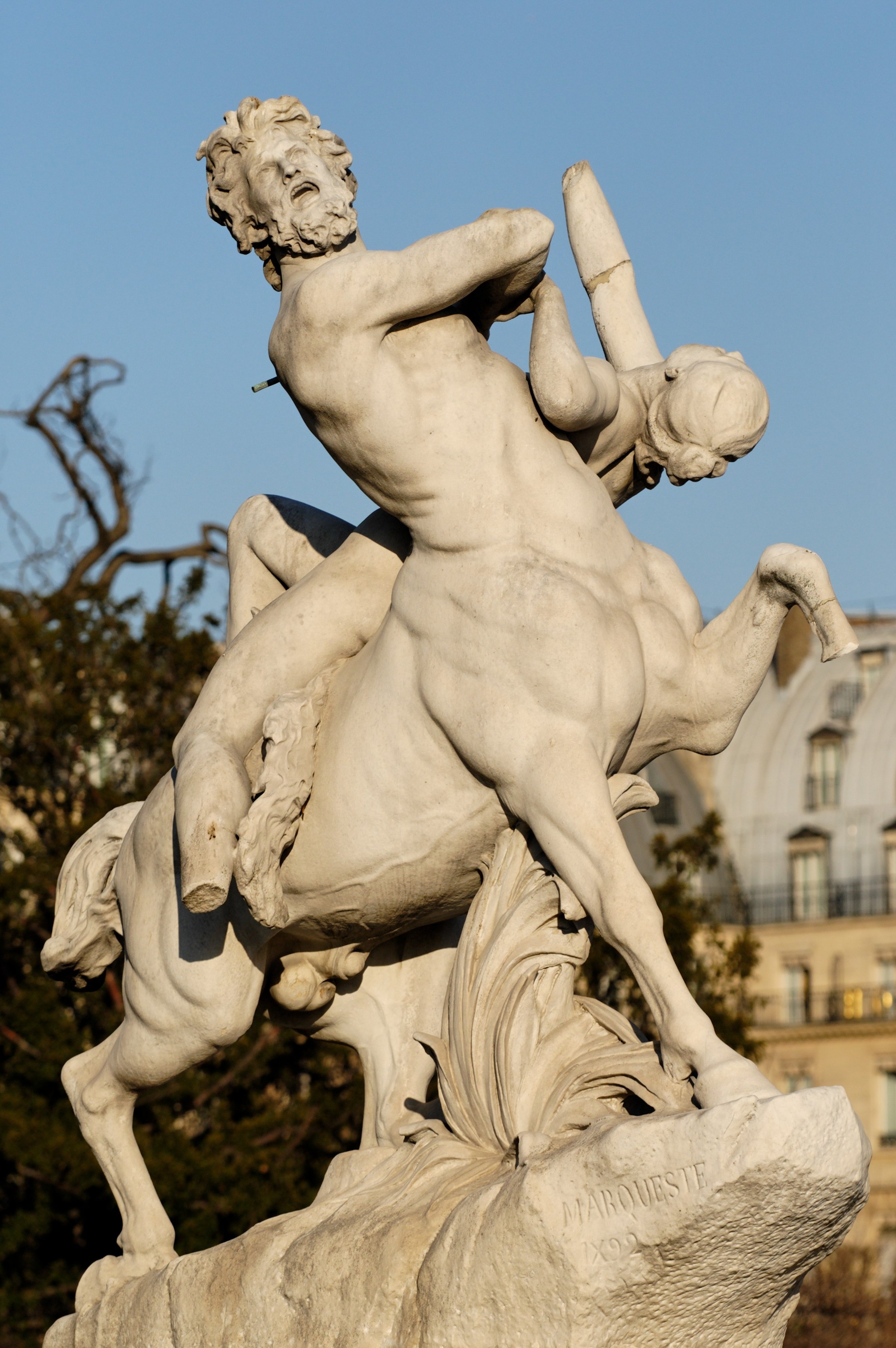 Centaur raping a nymph by Laurent Marqueste (French, 1850–1920). Marble, 1892. In the Tuileries Gardens, Paris.